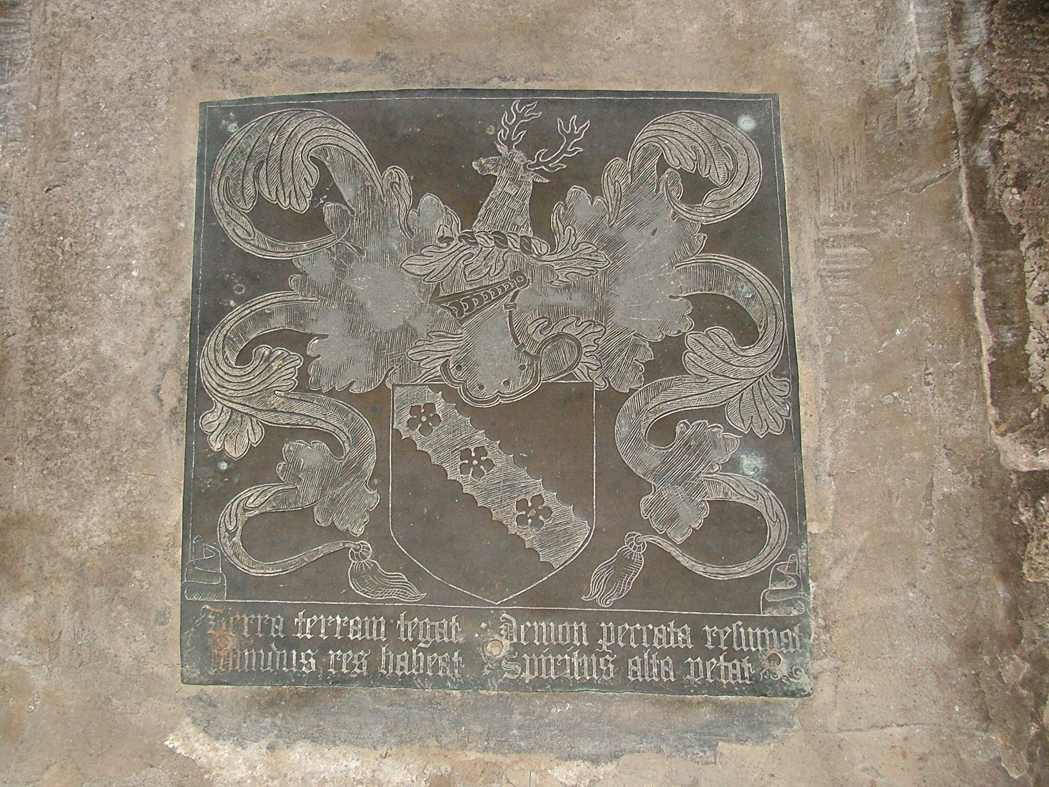 Photo of brass plate for Sir William Harris, High Sheriff of Essex, 1505 - 1556, located in St. Leonard's Church in Southminster, Essex.